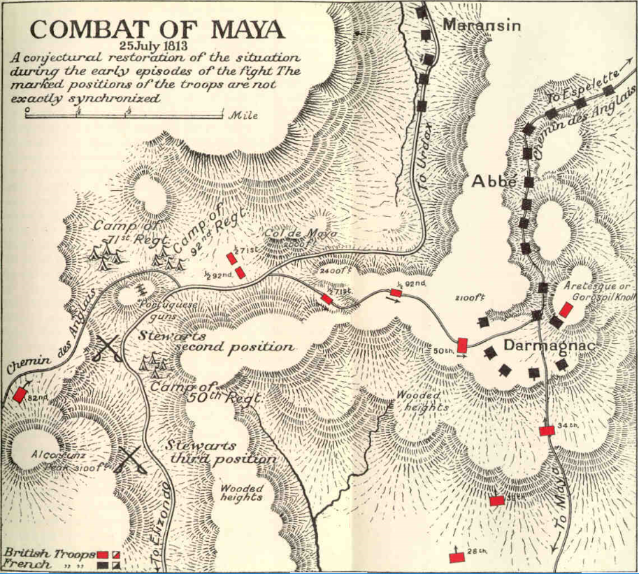 Image is a map of the Combat of Maya. It is copied from Sir Charles Oman's "A History of the Peninsular War: Volume VI" which was originally published in 1922. Oman died in 1946.